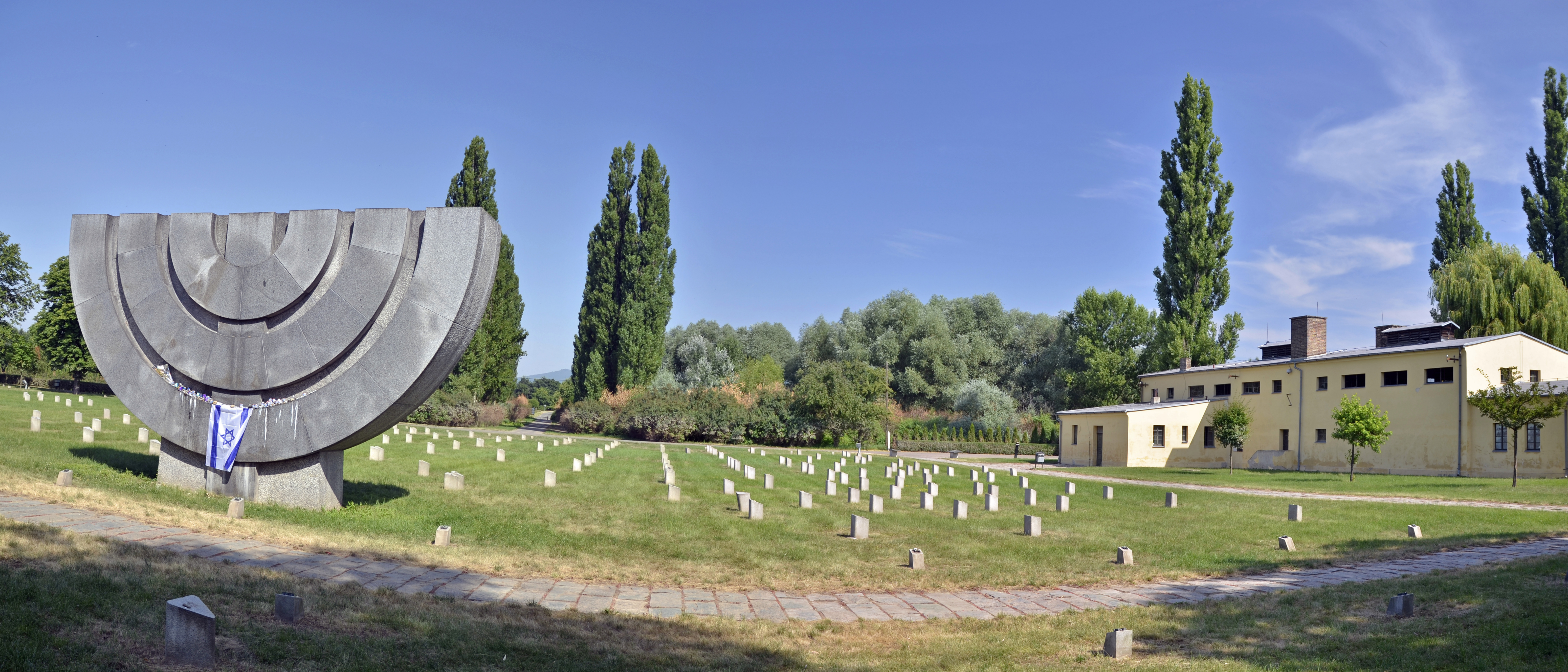 Terezin (Czech Republic)(Theresienstadt concentration camp)- Jewish Cimetary